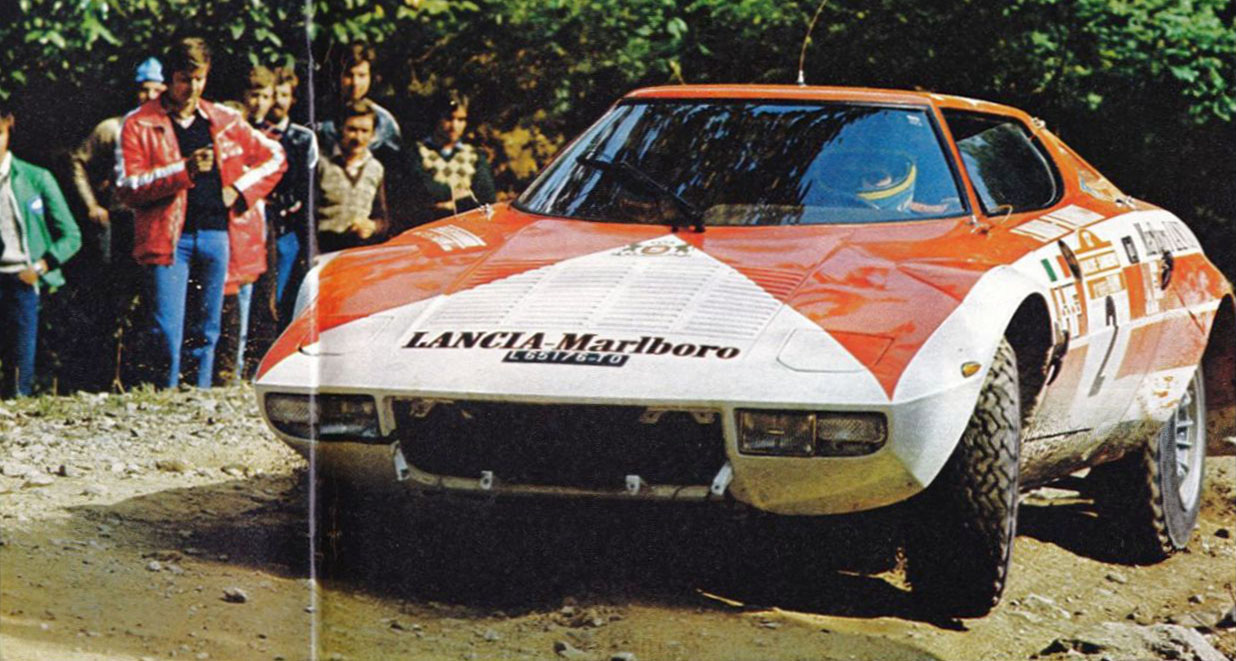 Italian rally driver Sandro Munari and his co-driver Mario Mannucci on a Lancia Stratos HF (Group 4) sponsored Marlboro at the 1974 Rallye Sanremo.